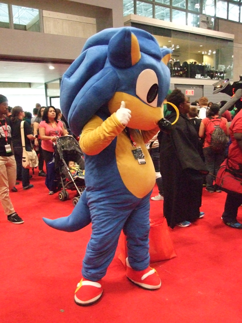 Cosplay at New York Comic Con 2013 (NYCC 2013).